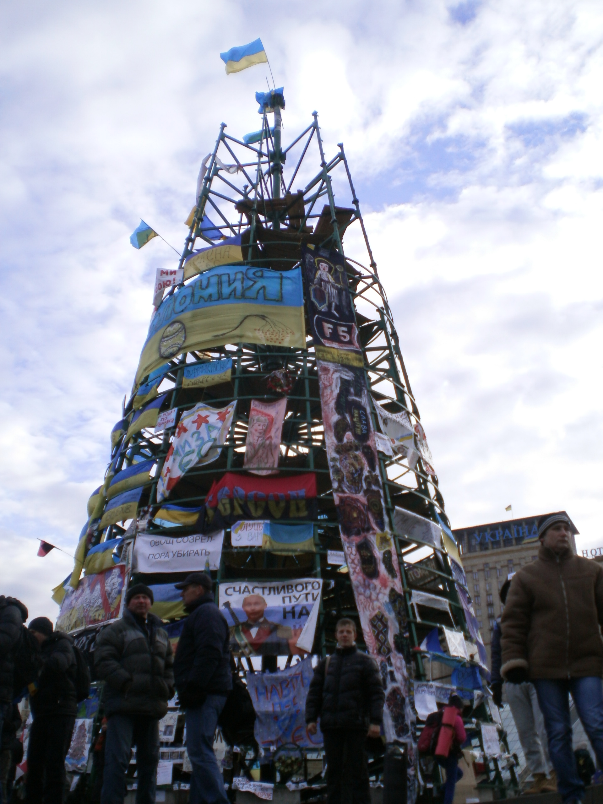 Euromaidan in Kyiv on 4th December 2013